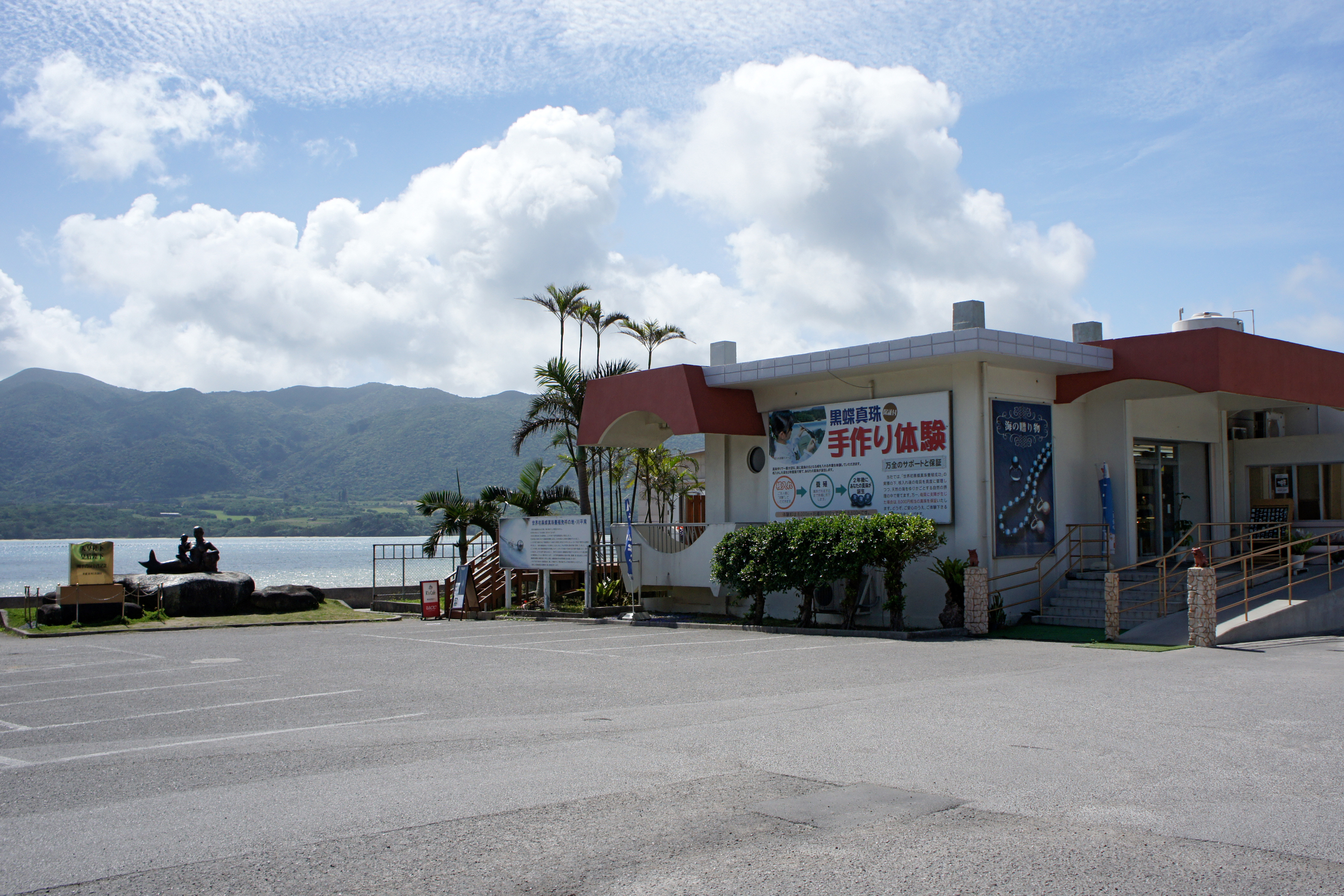 Kabira Bay of Ishigaki Island in Ishigaki City, Okinawa Prefecture, Japan. It is one of the Japan's Places of Scenic Beauty.